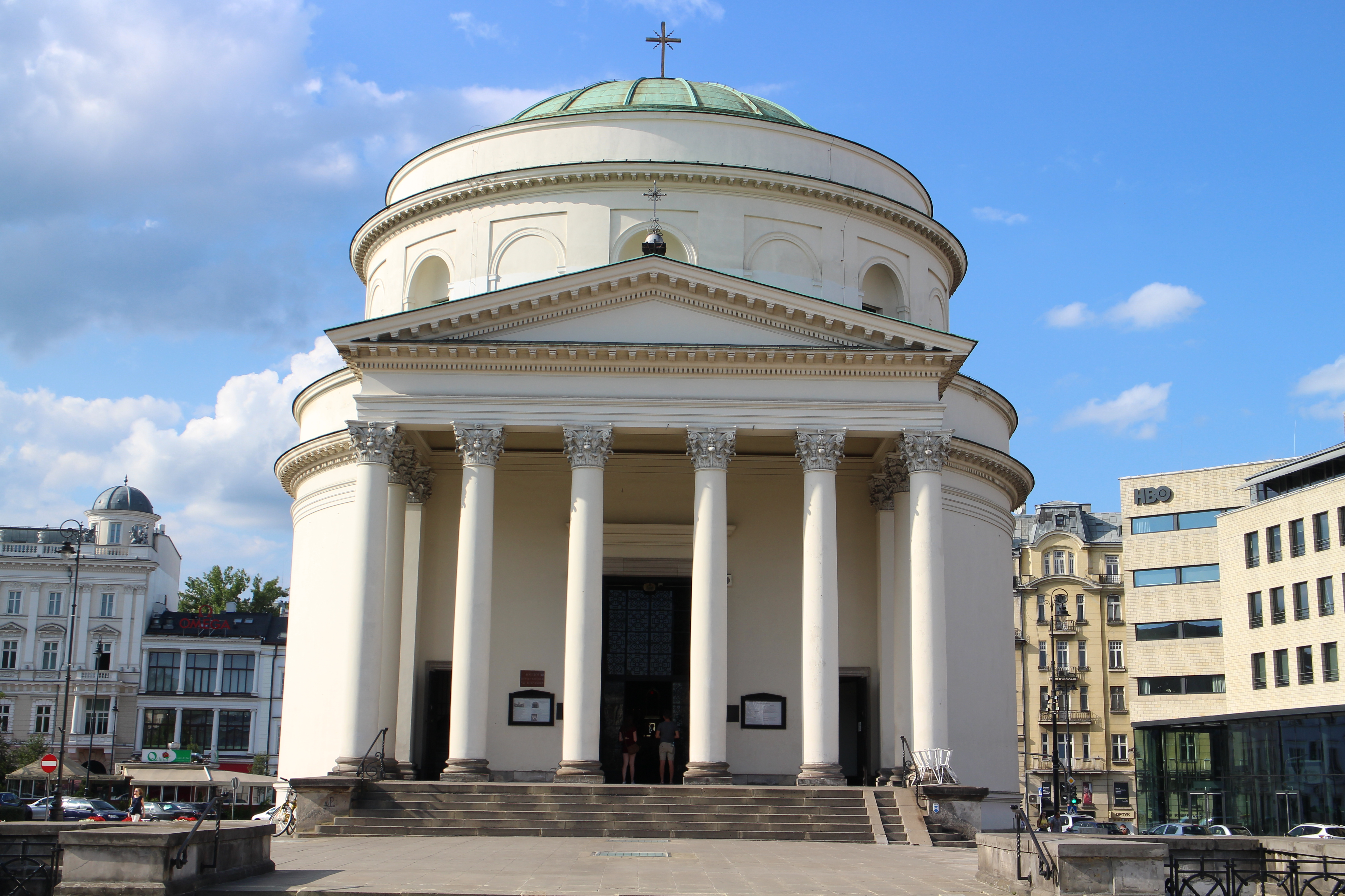 Saint Alexander church in Warsaw